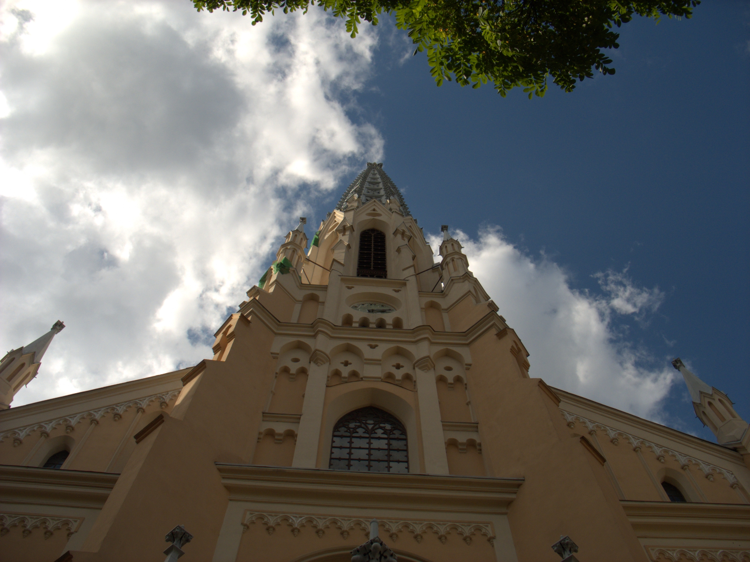 Reformaed (Calvinist) church in Warsaw